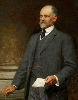 Portrait of Thomas Ferens, British politician, philanthropist and industrialist.